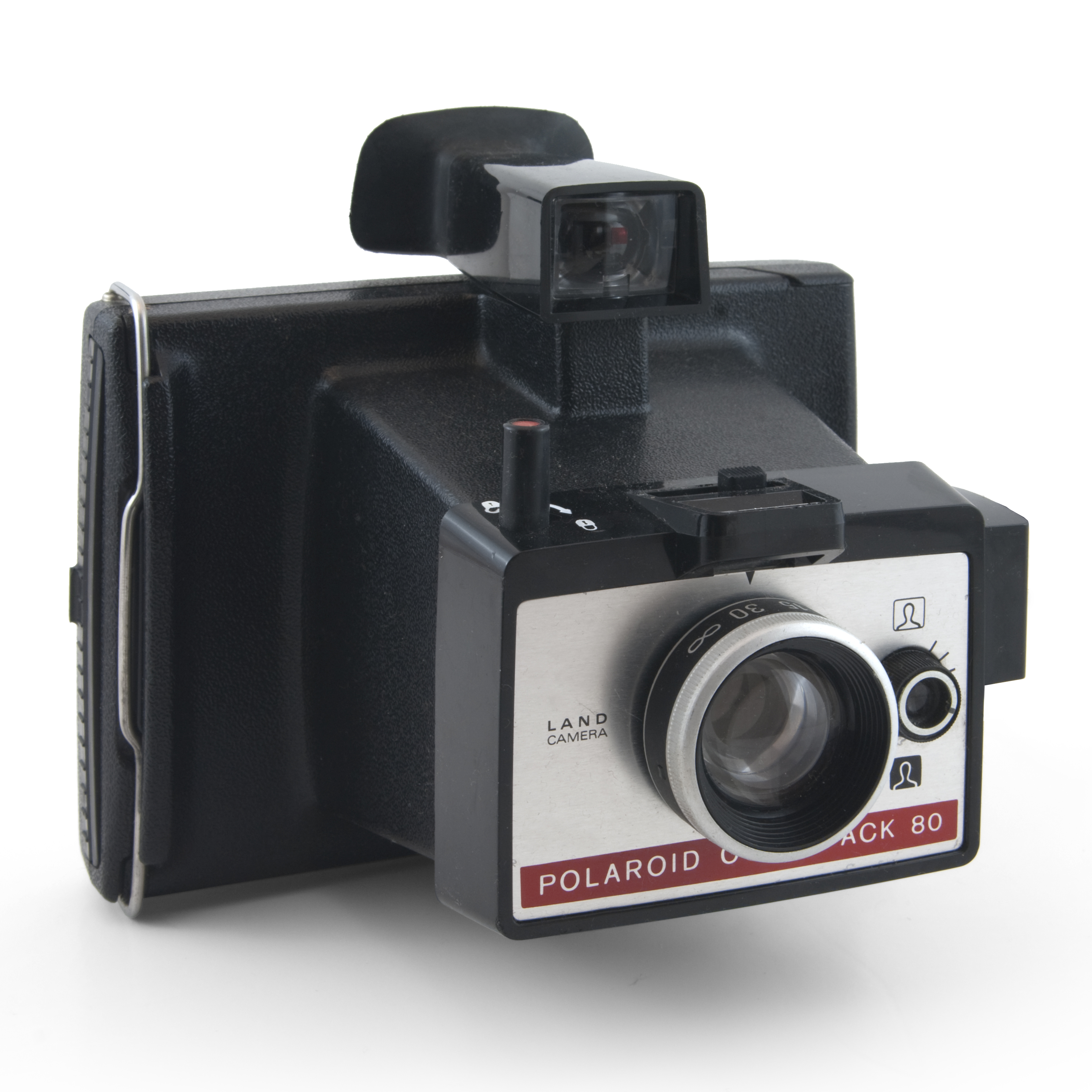 Polaroid Colorpack 80 Land Camera